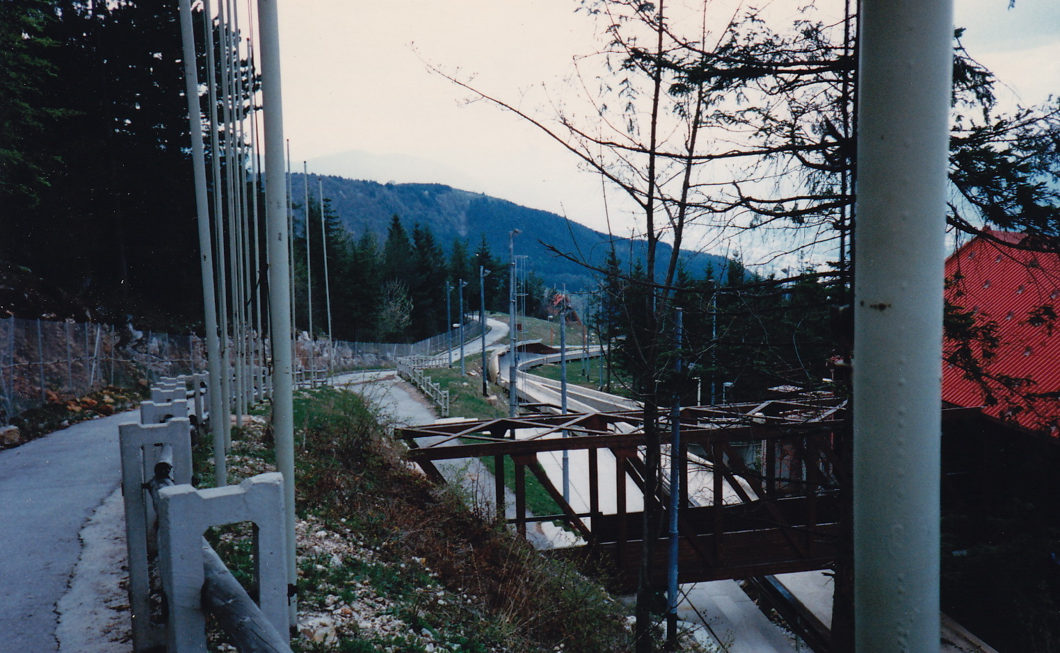 Luge run from the 1984 Olympics